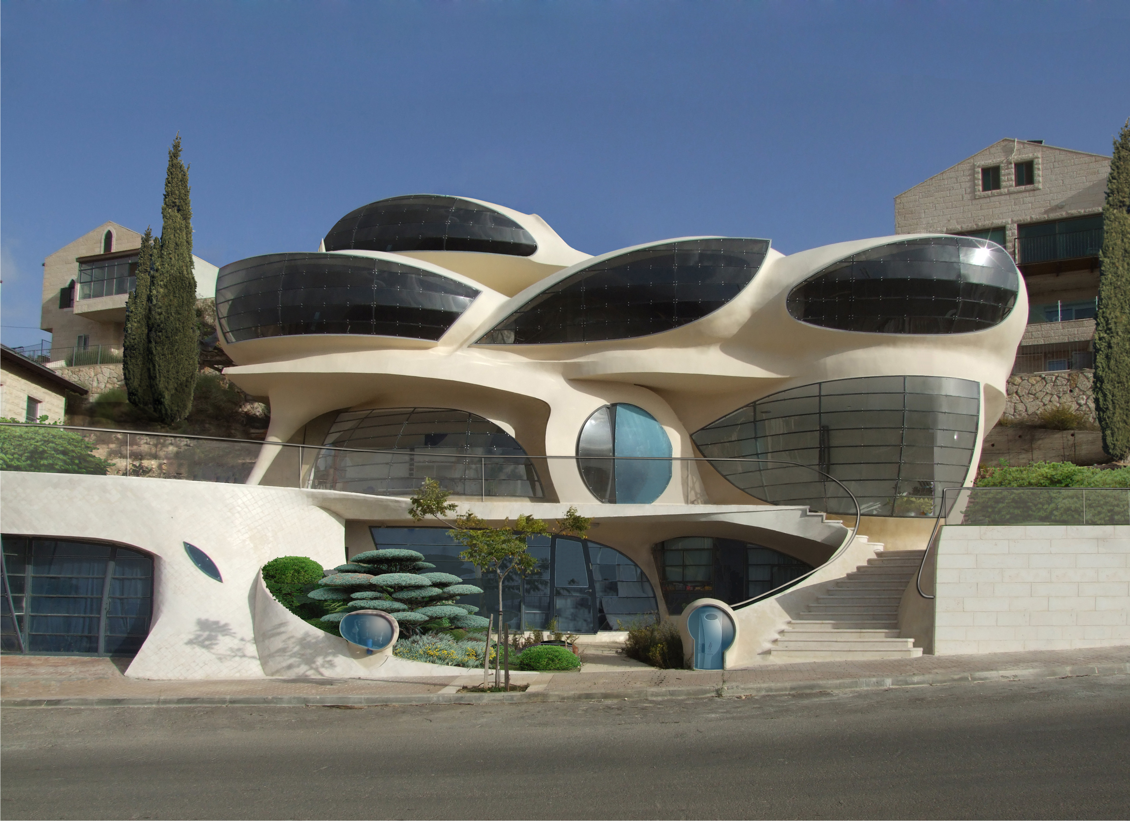 Biomorphic solar green house by Ephraim-Henry Pavie